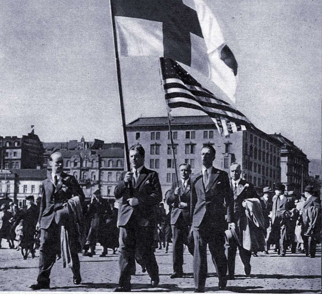 Finlandia choir in Helsinki 22.5.1939 - return from America, New York